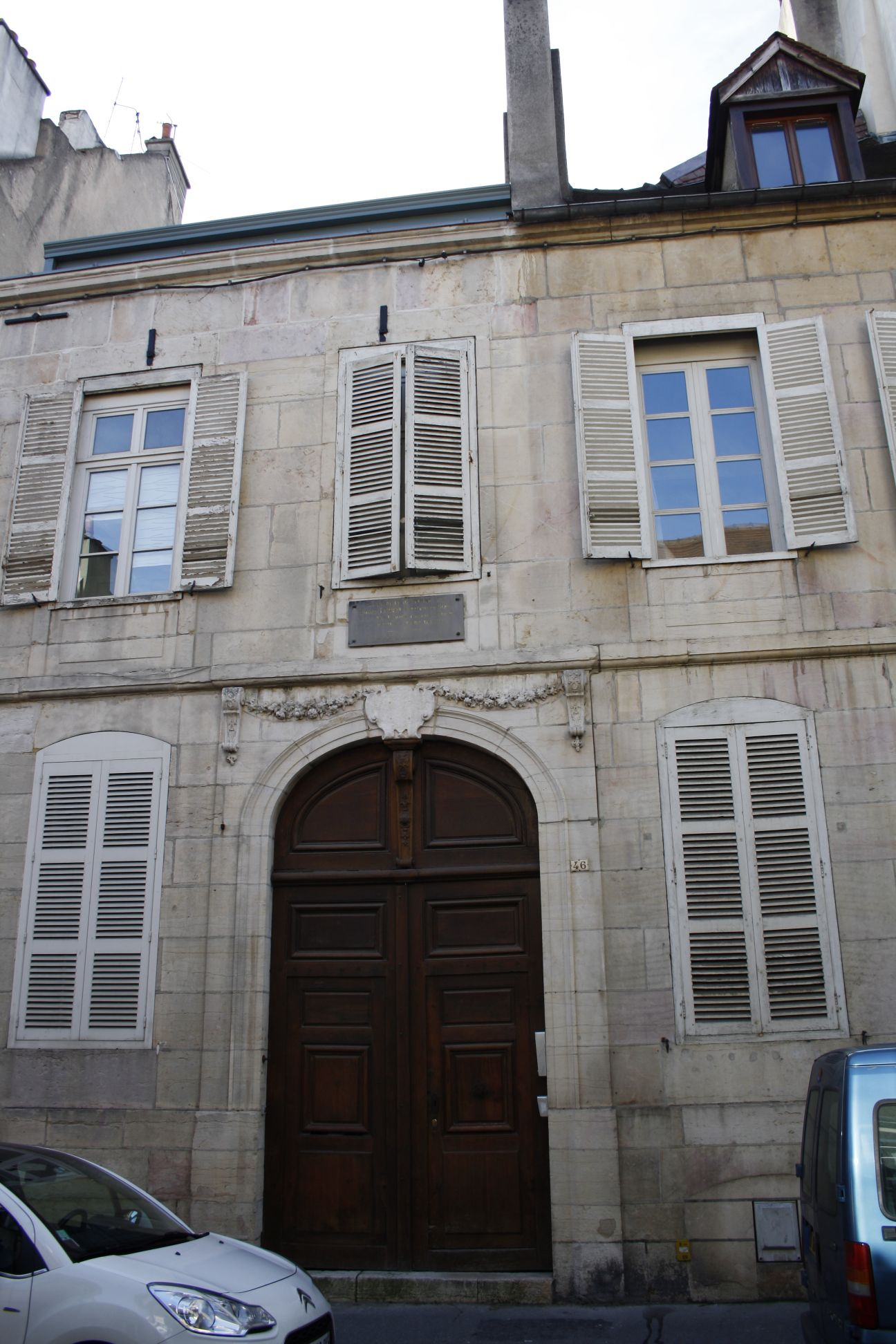 The house of Edouard Tarron in Dijon (Côte-d'Or, Bourgogne, France).